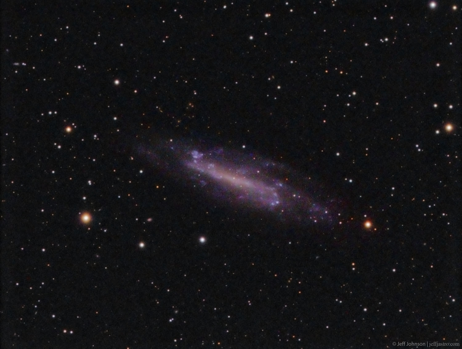 Galaxy NGC 4236 imaged using amateur telescope from backyard setup.